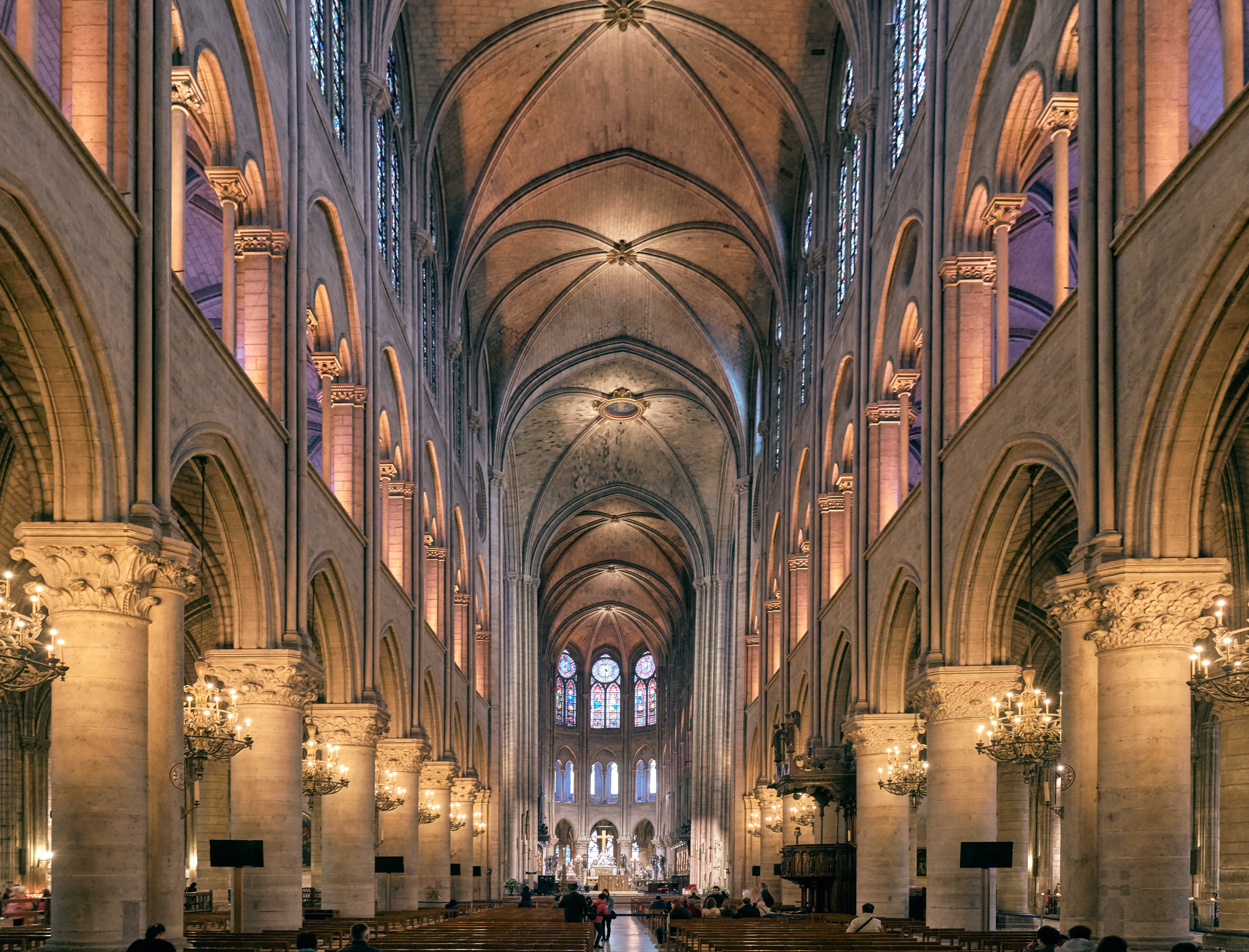 Panorama of the interior of the Notre-Dame Cathedral. Tricky to stitch because the light in different places has very different white balance. Stitched with Autopano, processed in CaptureOne.